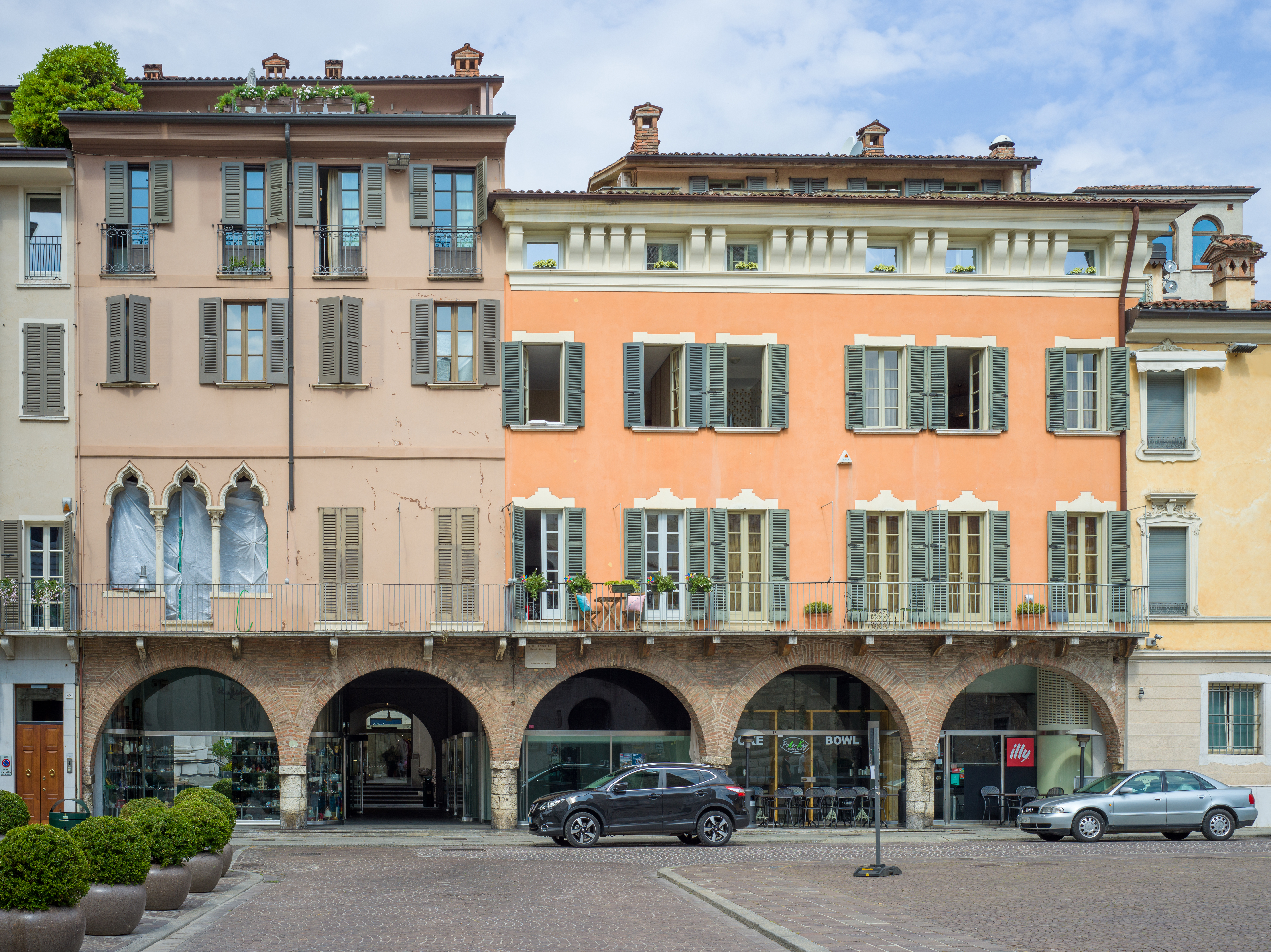 The Casa dei Camerlenghi house in Brescia.